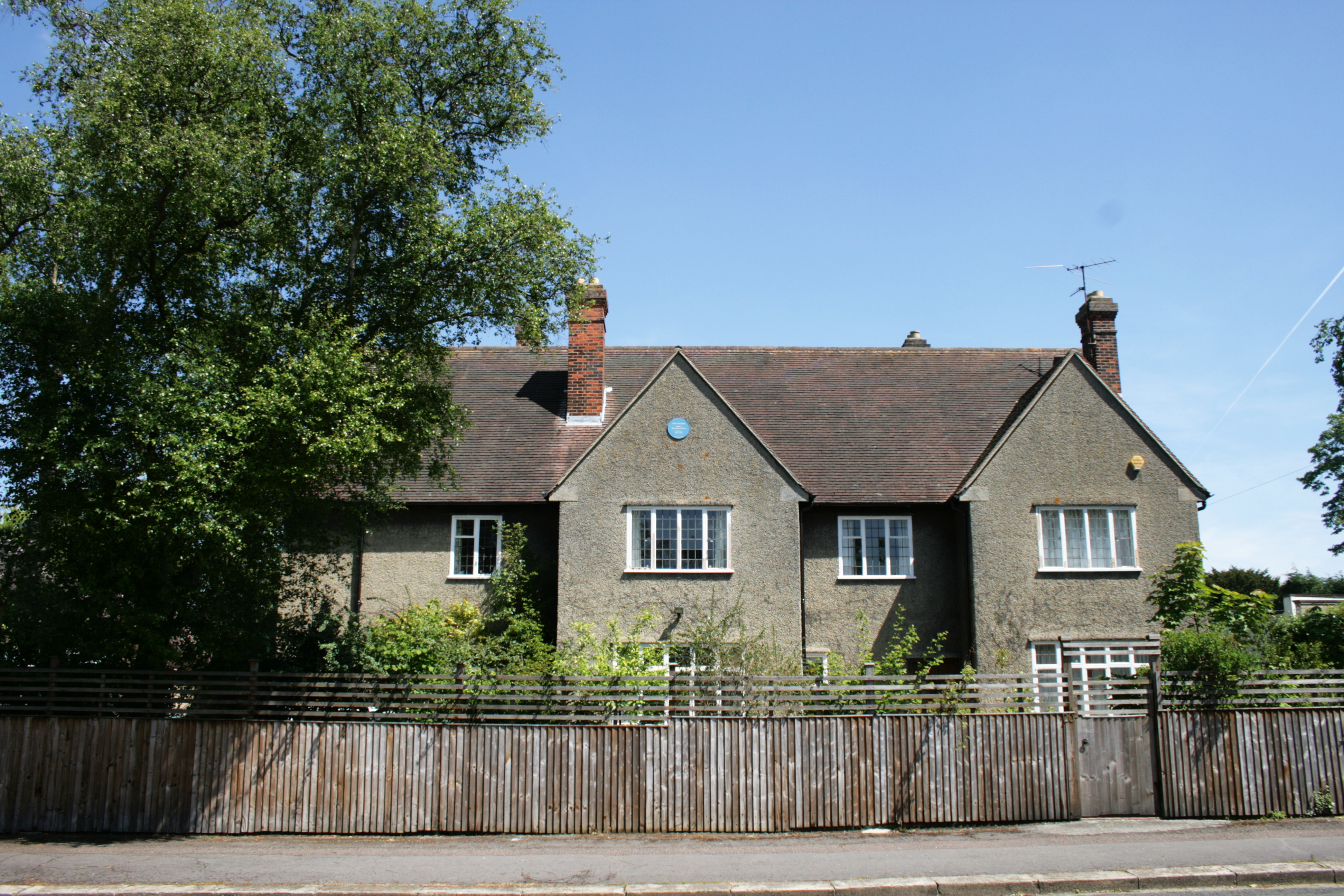 Photograph of the building at 20 Northmoor Road, Oxford, England, former home of the author J. R. R. Tolkien (1930 - 1947).